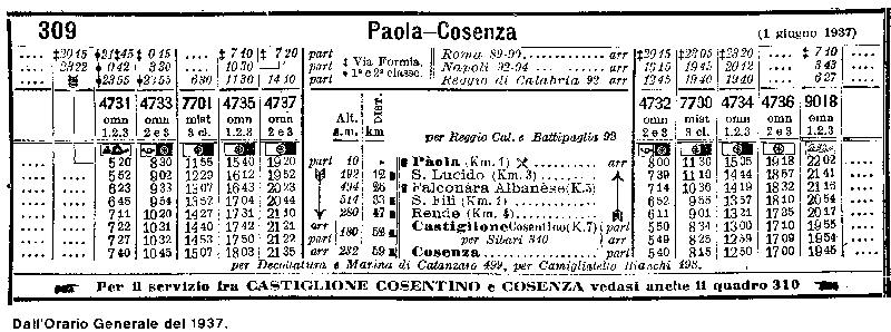 1937 train timetable of the Cosenza-Paola railway.